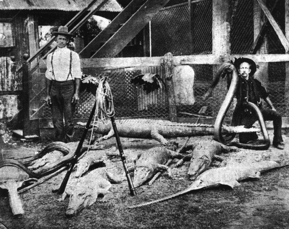 Hunters displaying their hunting trophies at Halifax, 1907. Hunters display dead crocodiles, fish and snakes outside Robinson's Hotel, W:Halifax, QueenslandHalifax. The trophies are the result of excellent shooting by the hunters. The snakes are the pets of the hunters. (Description supplied with photograph).